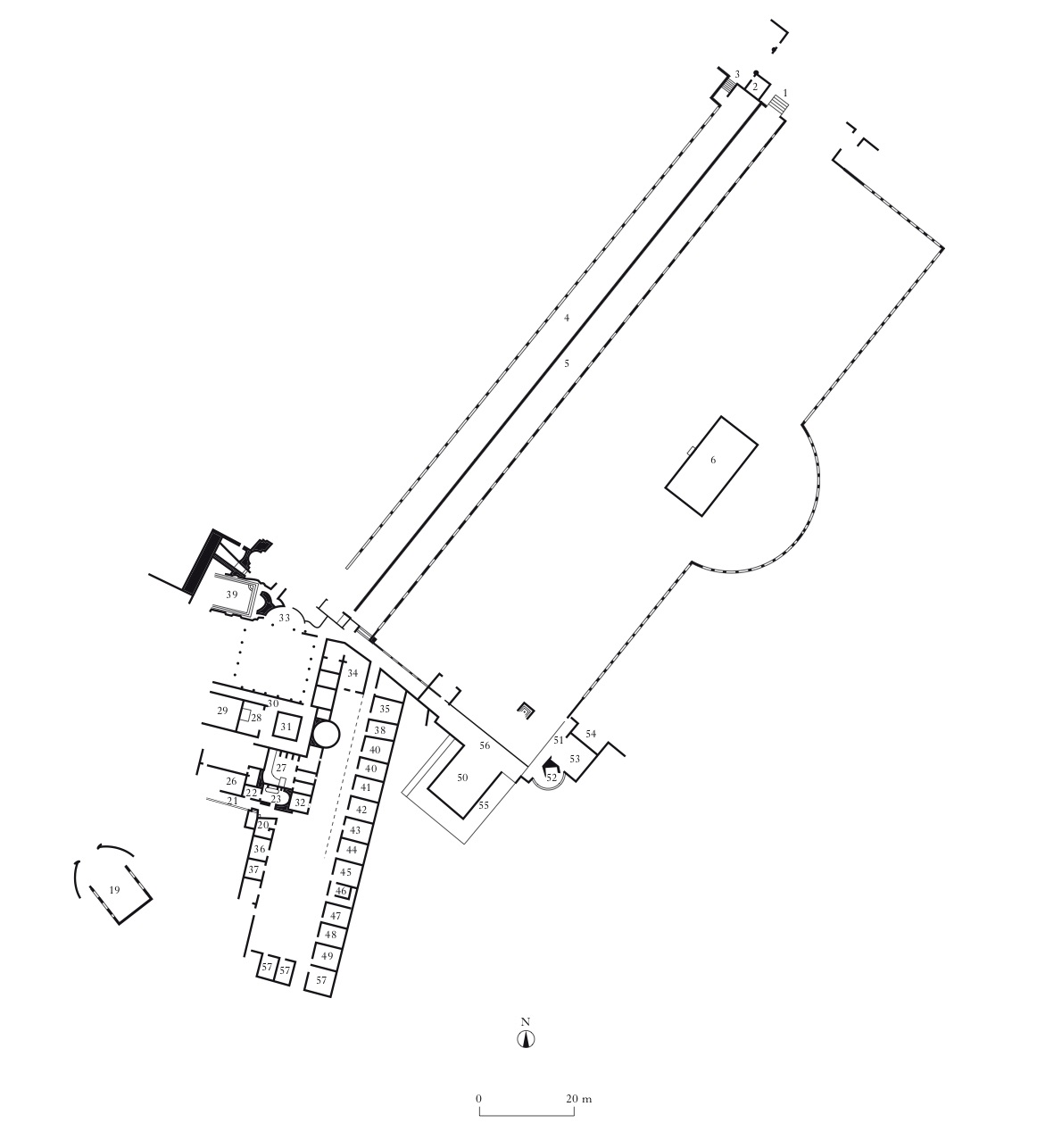 Plan Villa del Pastore